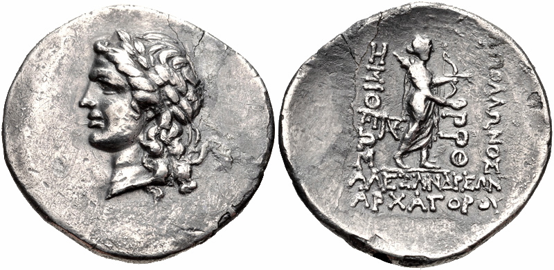 TROAS, Alexandreia. Circa 102/1-66/5 BC. AR Didrachm (27mm, 6.98 g, 12h). Archagoros, magistrate. Dated CY 199 (73 BC). Laureate head of Apollo left / Apollo Smintheus standing right, quiver over shoulder, holding bow, arrow, and patera; monogram to inner left, date to inner right, ΑΠΟΛΛΩΝΟΣ ΣΜΙΝΘΕΩΣ [ΑΛΕΞΑΝΔΡΕΩΝ ΑΡΧΑΓΟΡΟΥ in exergue].